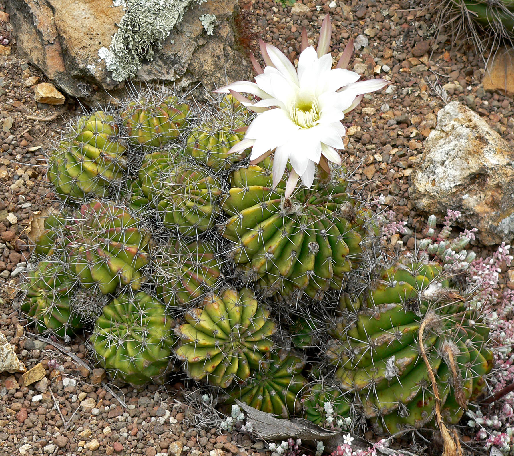 Photo of Echinopsis rojasii var. albiflora at the University of California Botanical Garden